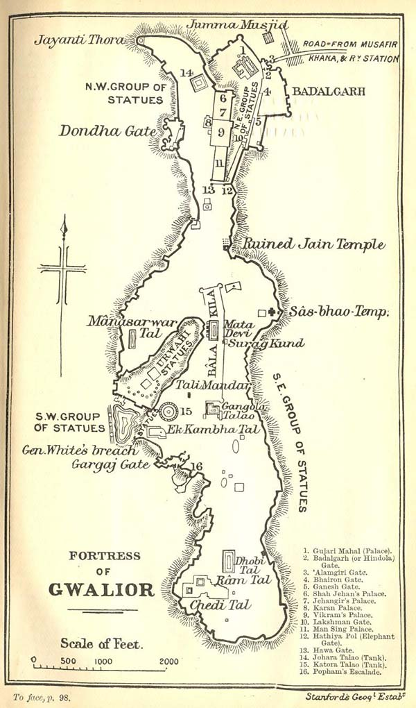 Gwalior Fort plan 1901 showing the locations of the Jain rock-cut monoliths